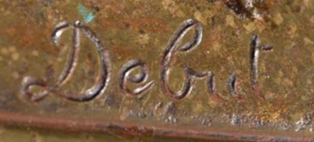 Signature of French sculptor Jean Didier Début, 1824-1893